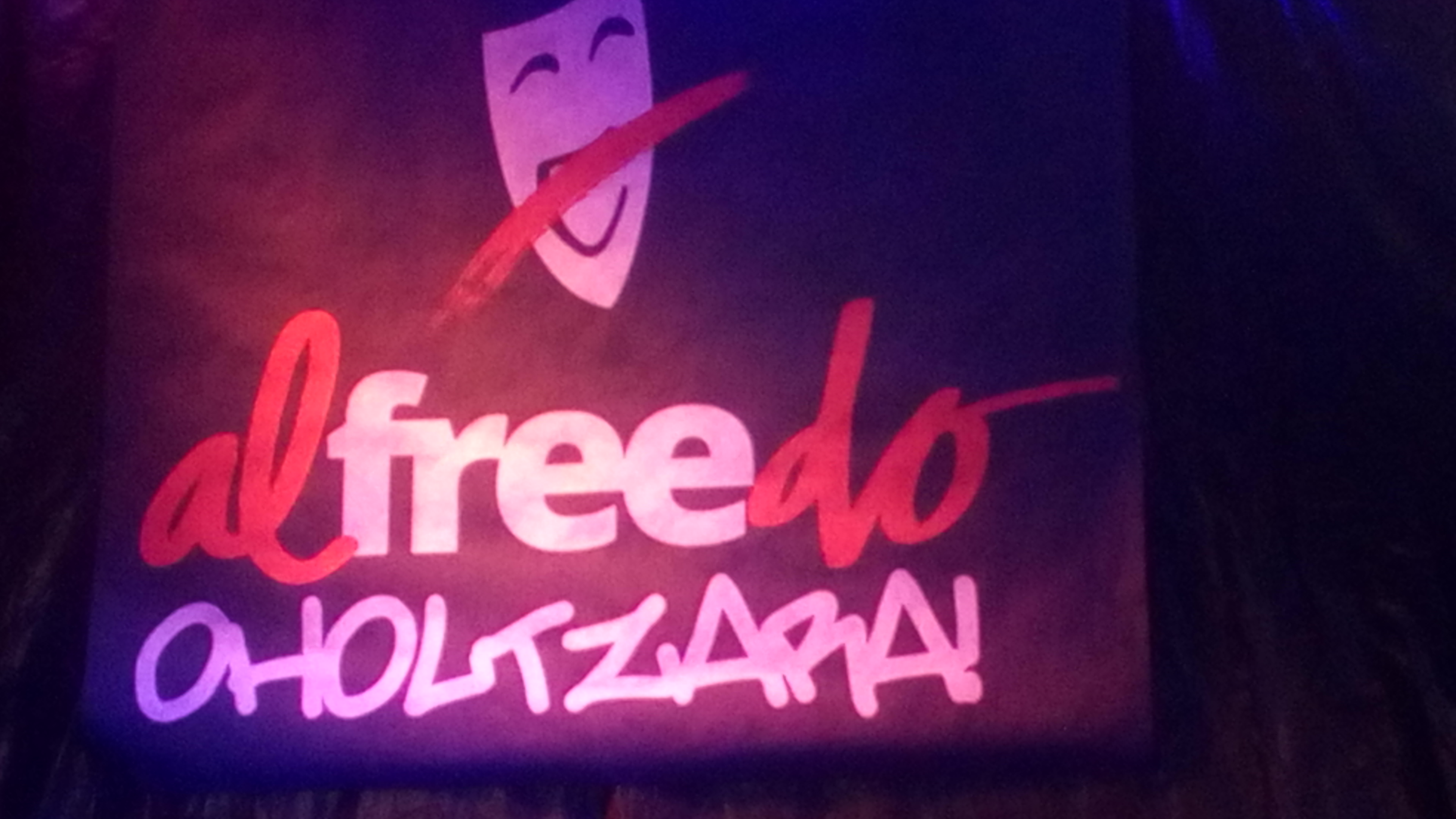 Poster against the incarceration of Alfredo Remirez. Bilbao 2018.